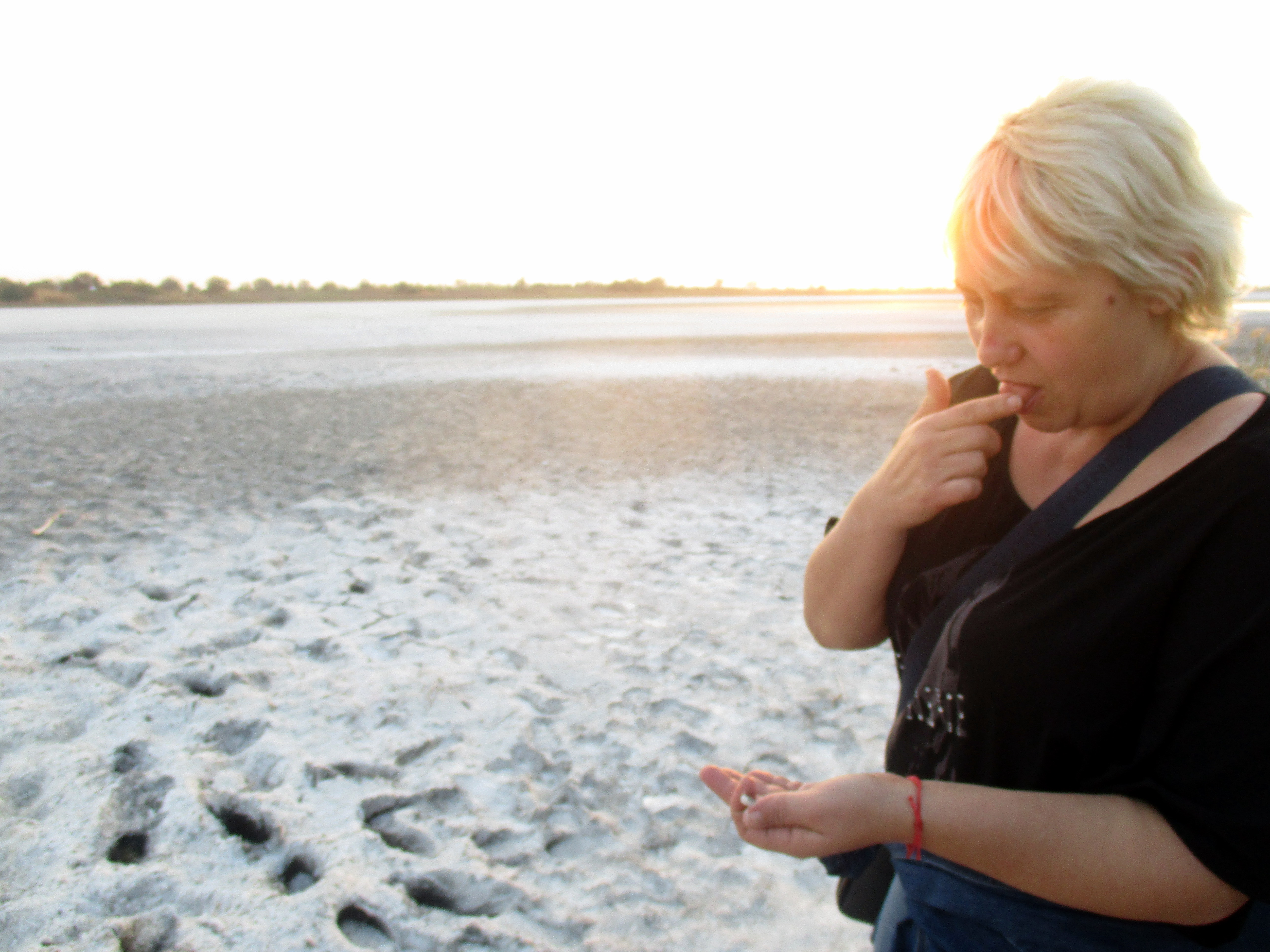 The Lady tries to see if the substance is really salty